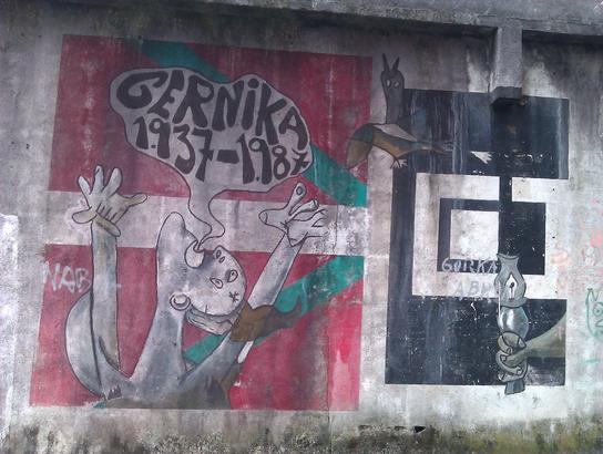 Mural painting remembering gernika bombing. Euskadiko ezkerra.